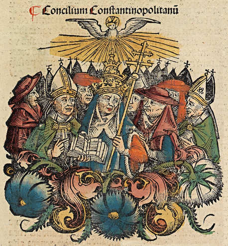 Woodcut from the Nuremberg Chronicle Ecumenical Second Council of Constantinople held in 553.